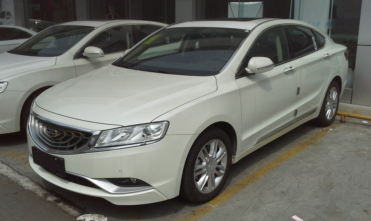 Geely Borui photographed in Chongqing, China.